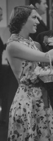 Edna Norrell